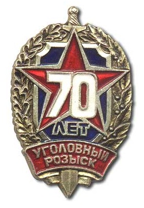 Badge 70 years criminal Search MVD USSR